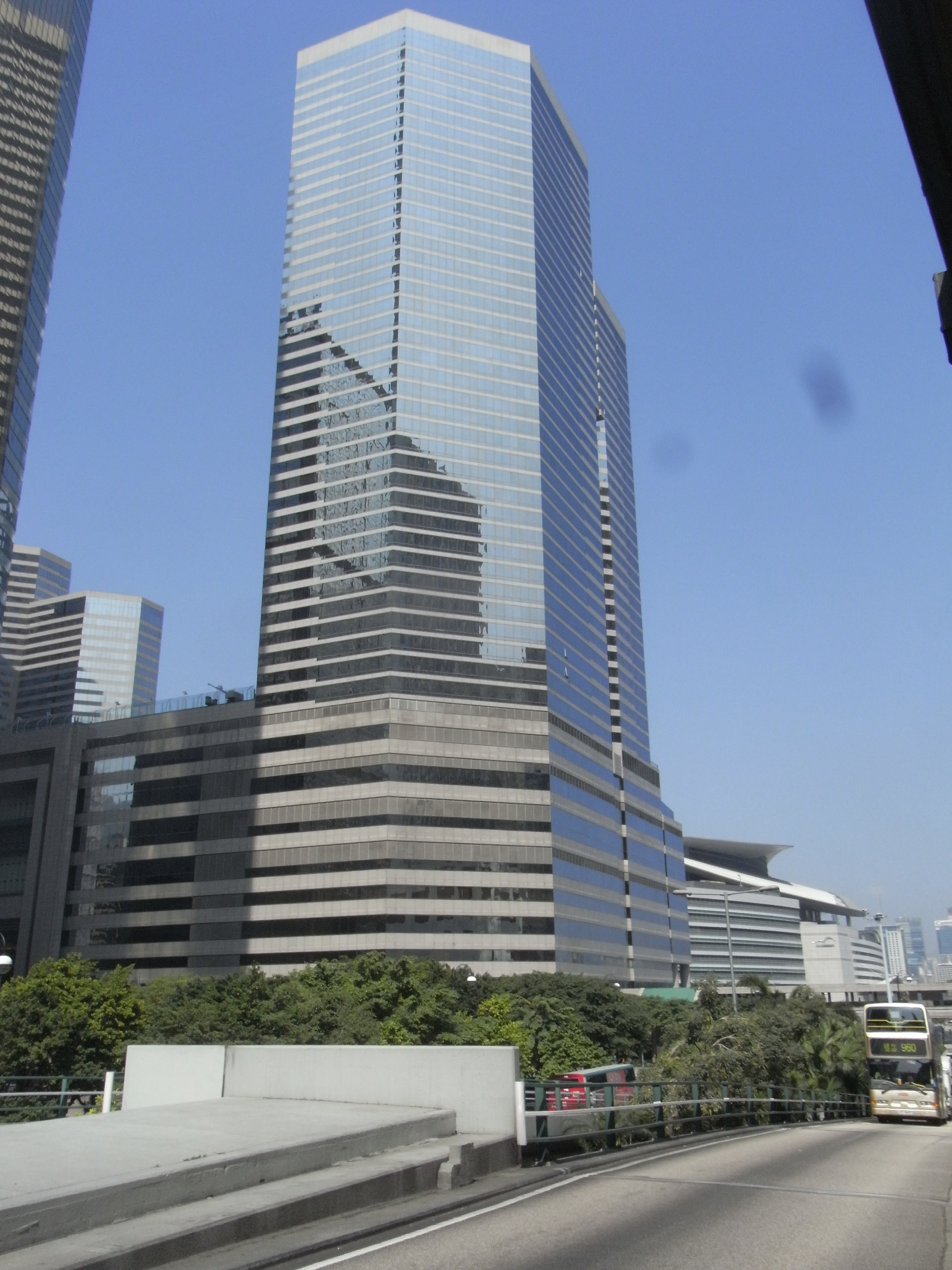 香港島 灣仔北 菲林明道